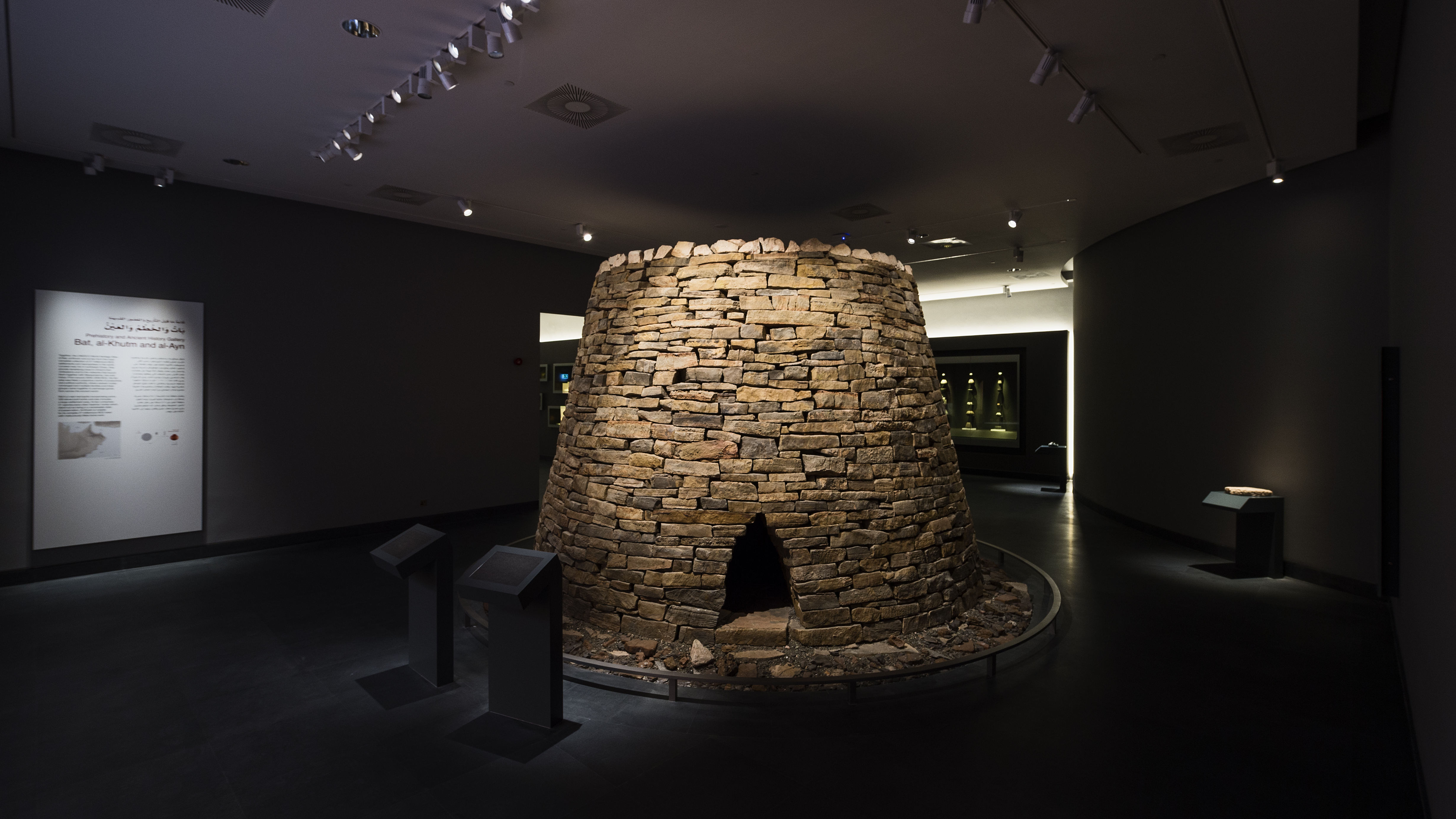 Bat, al-khutm and al-Ayn